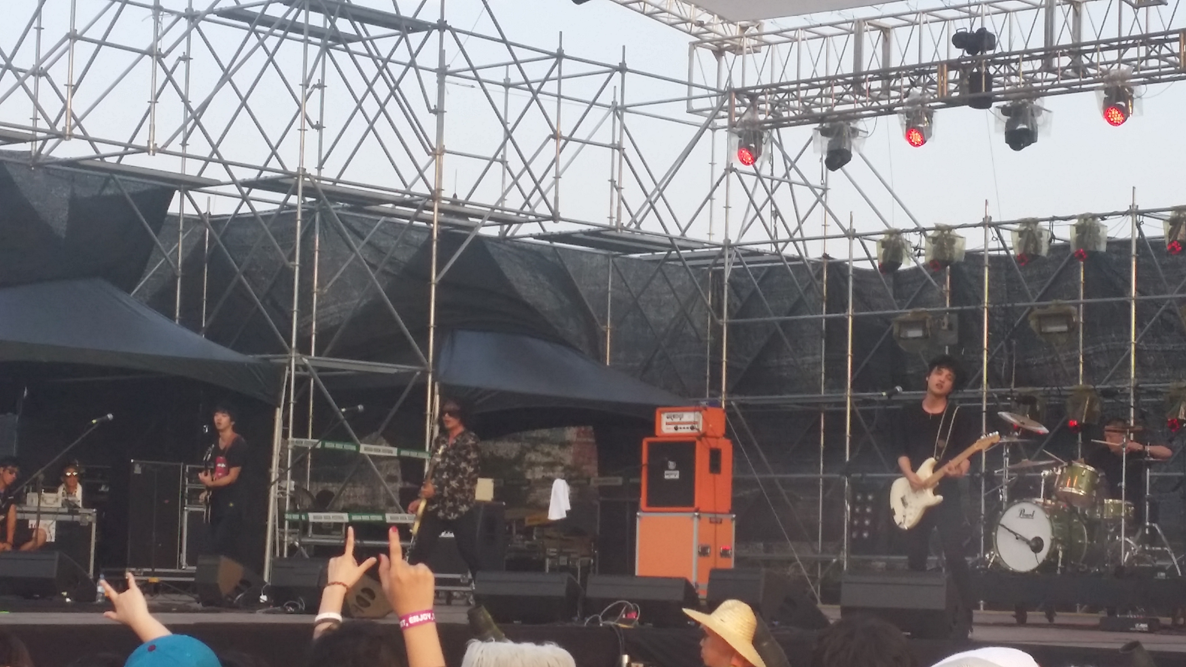 Galaxy Express in Busan Rock Festival on 9 August 2015